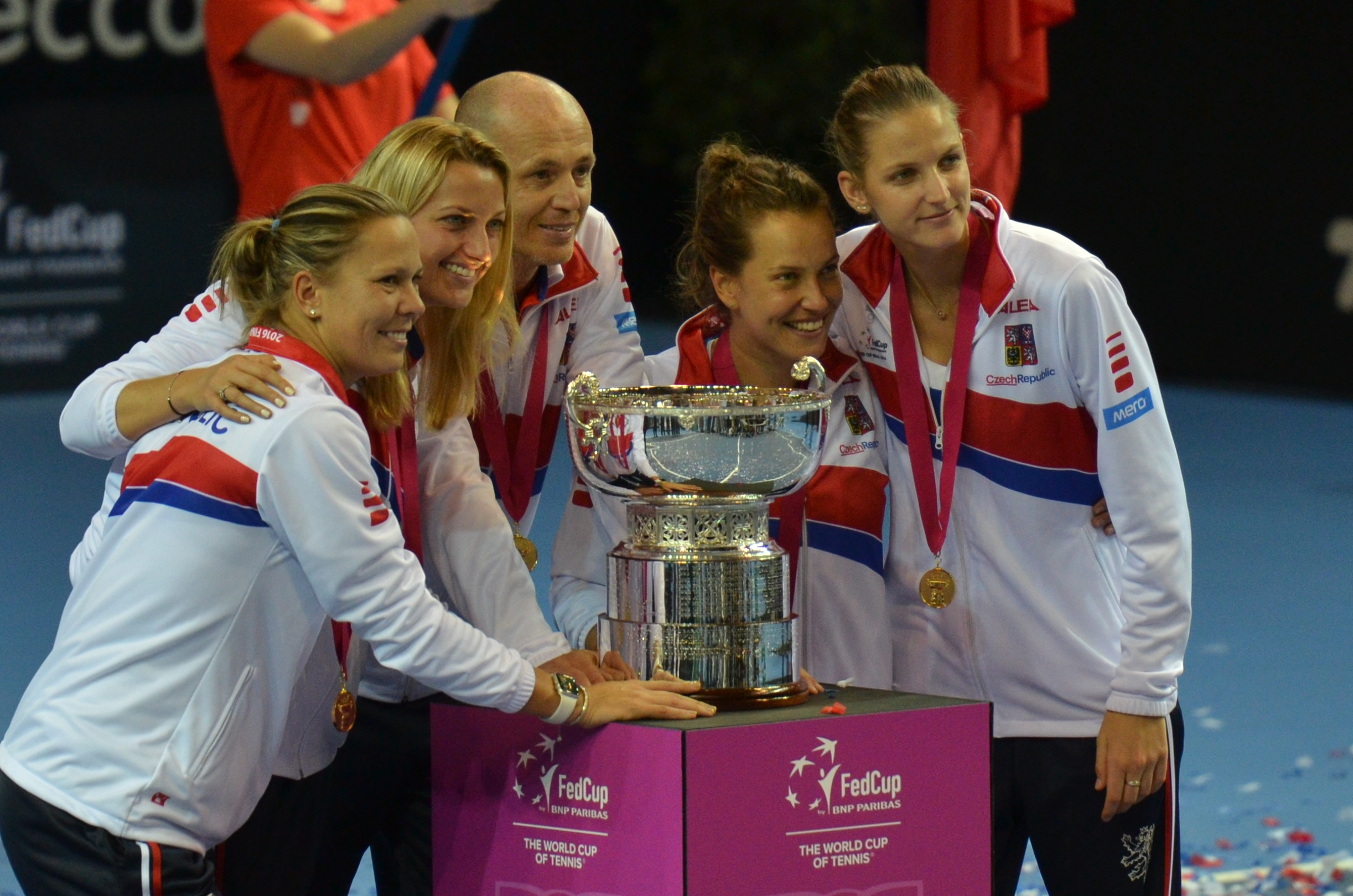 Czech Republic Fed Cup team following their victory in the 2016 Fed Cup. L-R: Lucie Hradecká, Petra Kvitová, Petr Pála (captain), Barbora Strýcová and Karolína Plíšková.